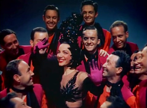 Carmen Miranda in the American film Greenwich Village (1944).